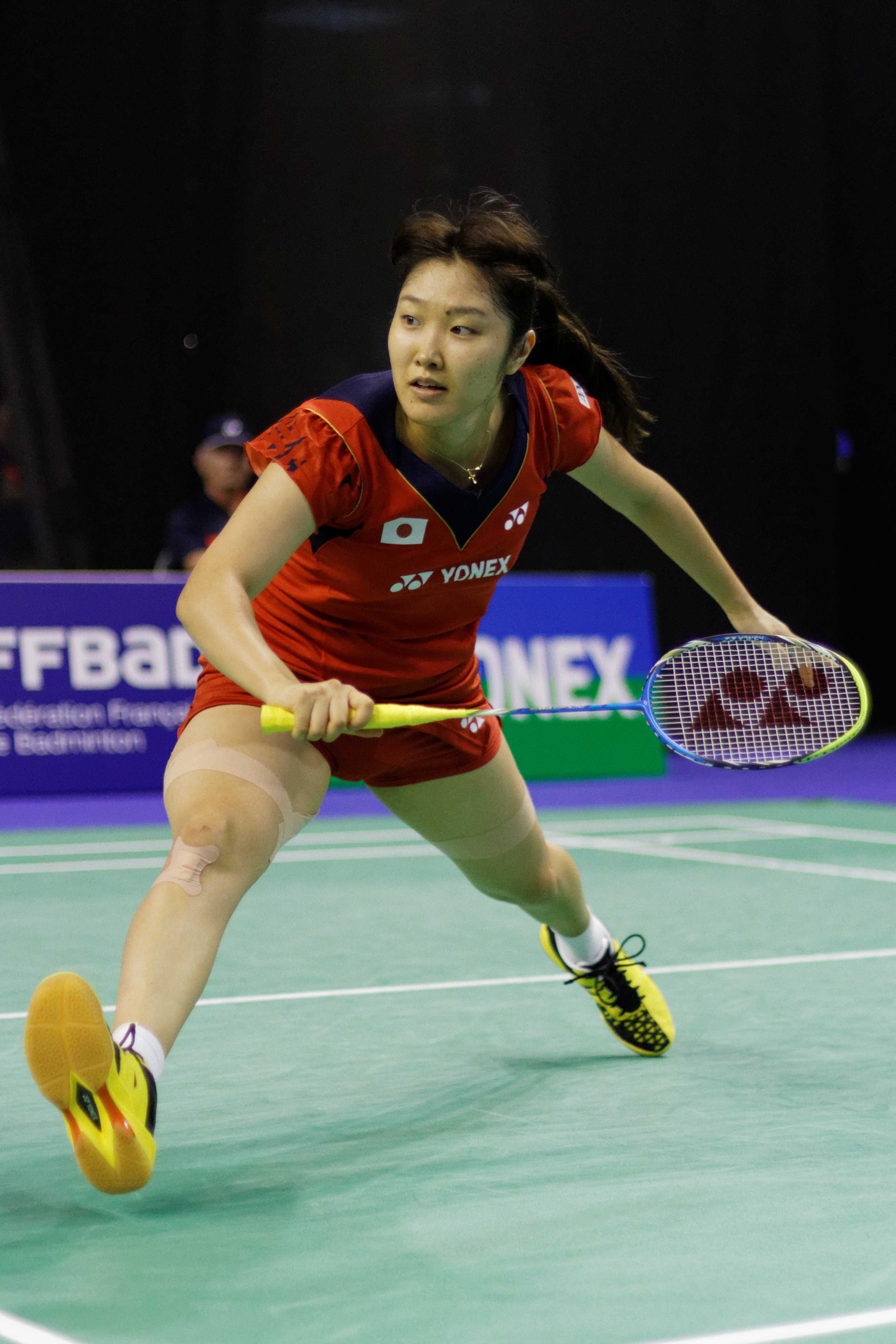 2013 French open. Women's singles quarterfinal. Eriko Hirose vs Tai Tzu-ying.